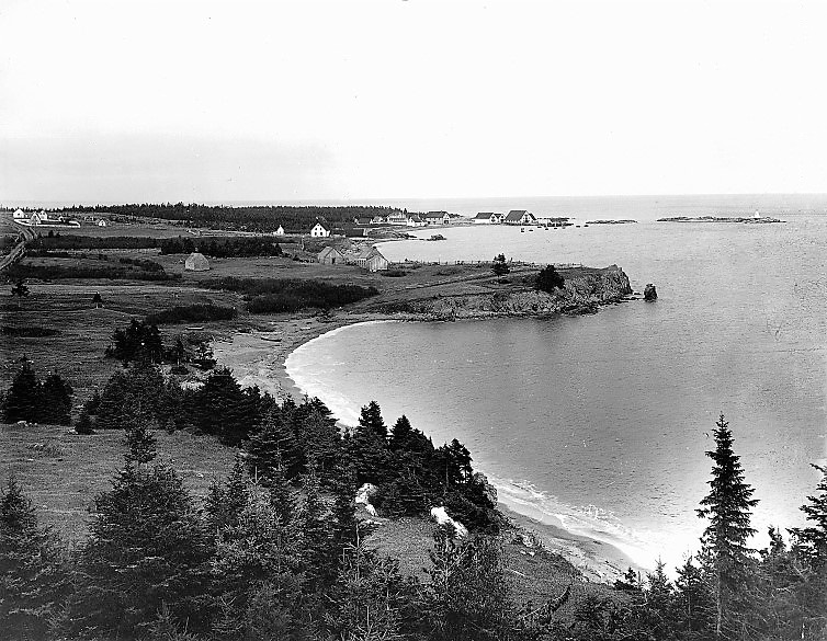 Photograph, Point Newport, Gaspé Peninsula, QC, about 1900, Silver salts on glass - Gelatin dry plate process - 20 x 25 cm